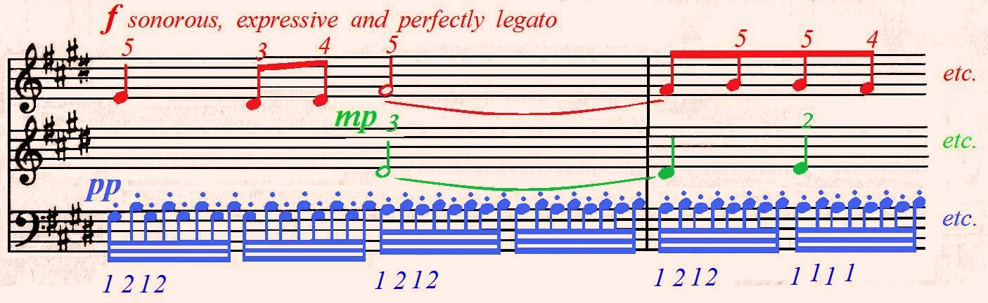 Exercise for touch differentiation in right hand of Chopin Etude Op. 10, No. 3 (after Alfred Cortot)